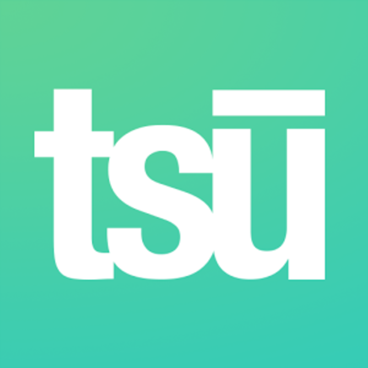 tsu logo .